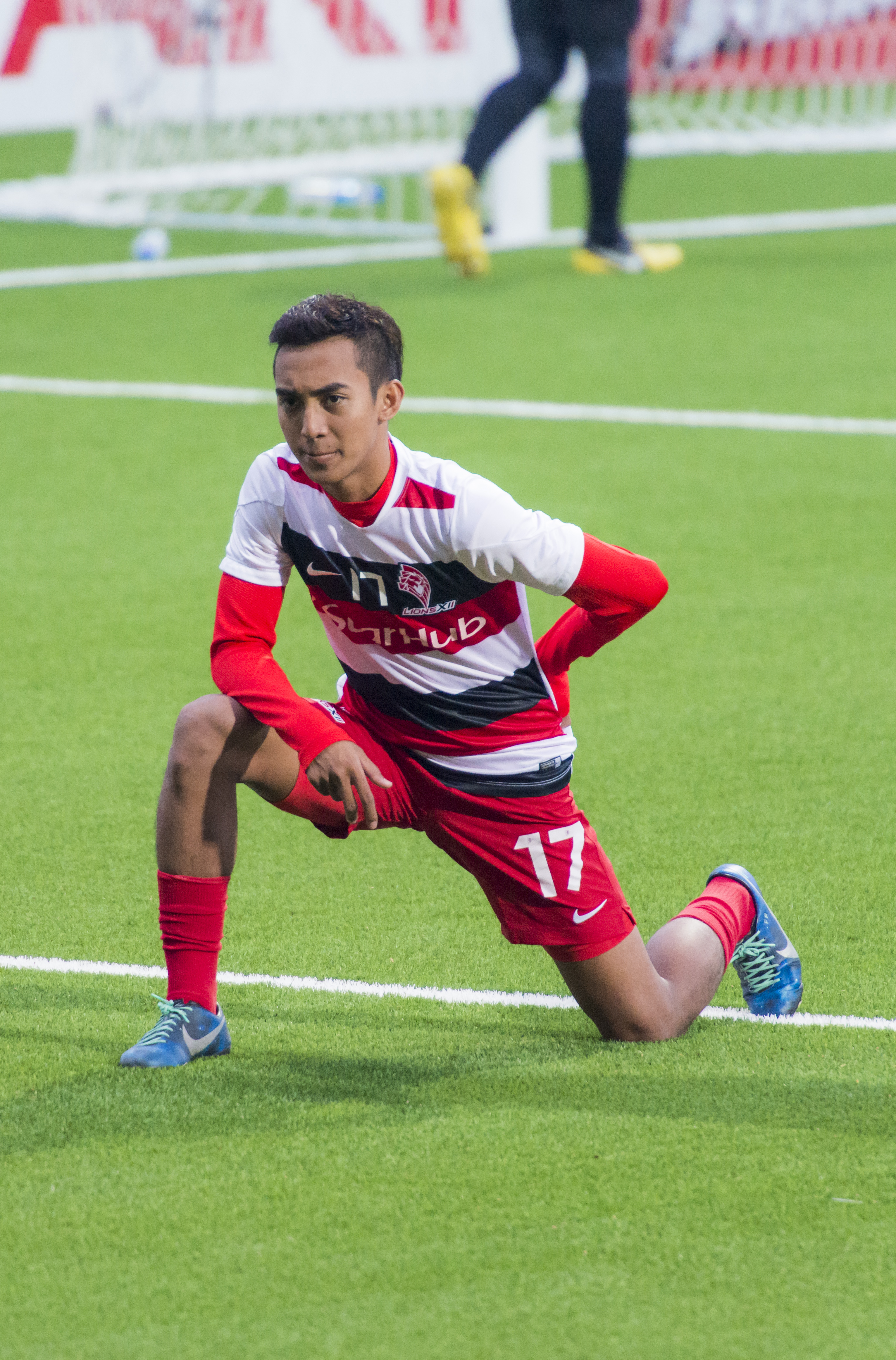 Faris Ramli warming up before LionsXII match against Kelantan FA.